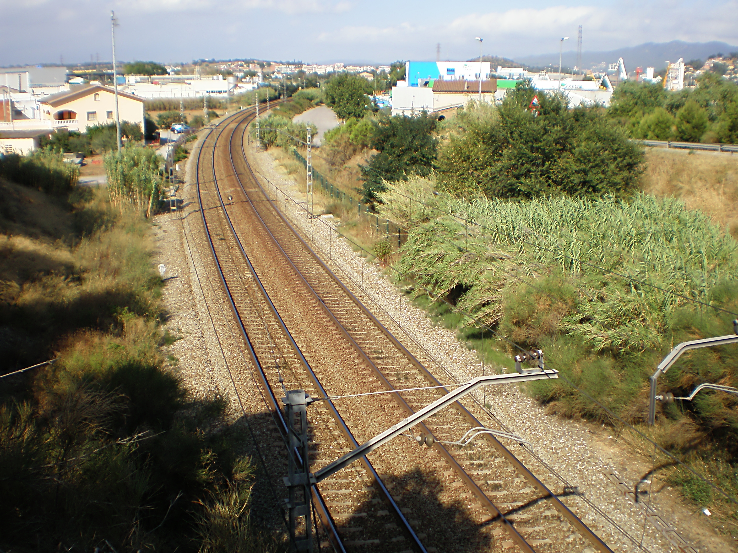 Barcelona–Cerbère railway in Mollet del Vallès.